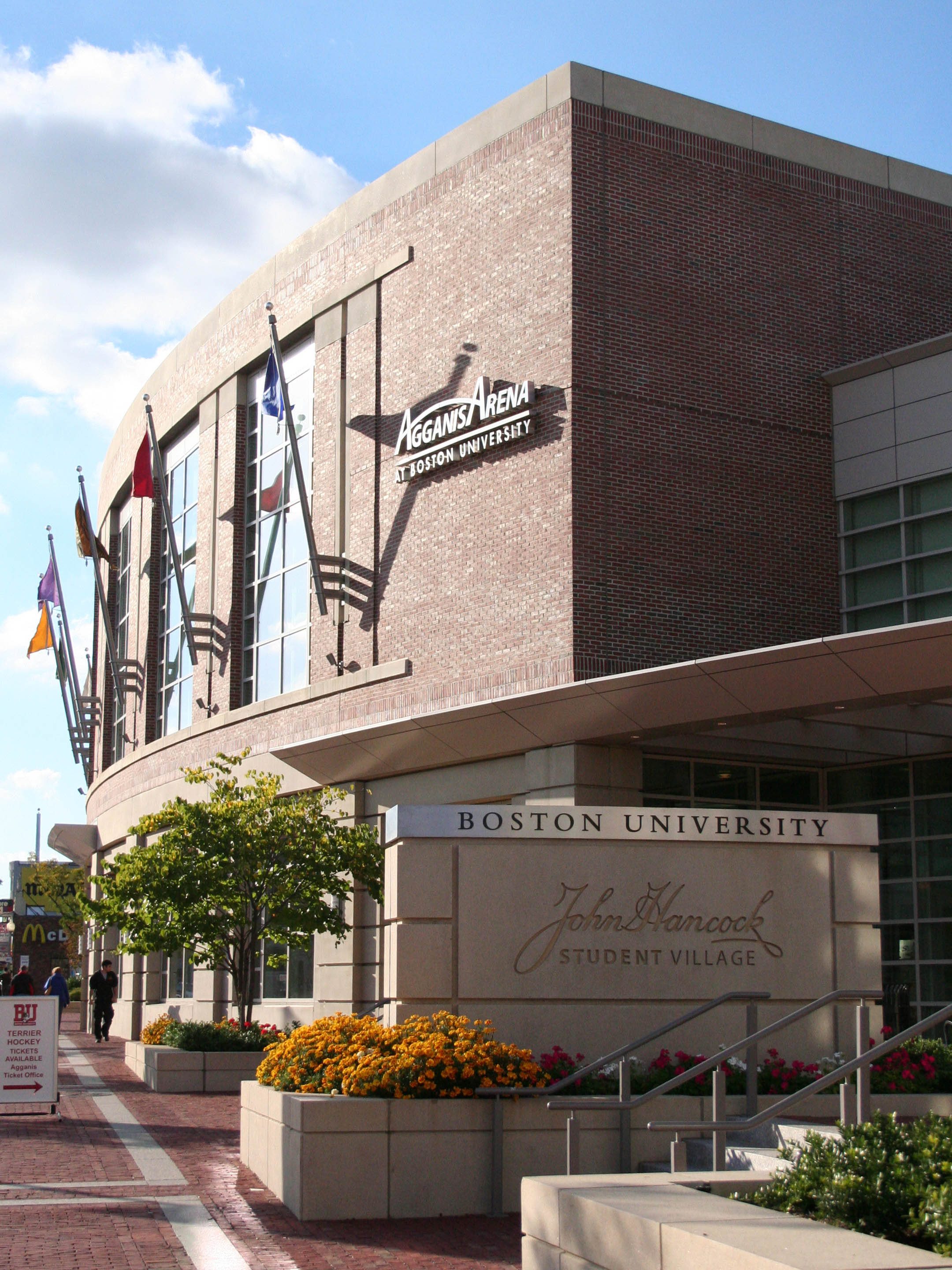 Agganis Arena at Boston University, in Boston, MA